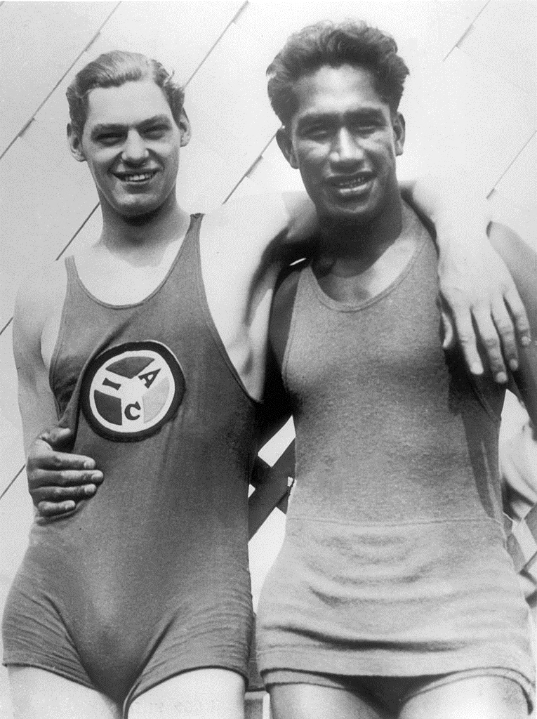 Johnny Weissmuller, American Olympic swimmer, 1904-1984, with Duke Kahanamoku, at the 1924 Paris Olympics.